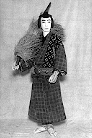 Mataichirō Hayashi II (1893–1966)